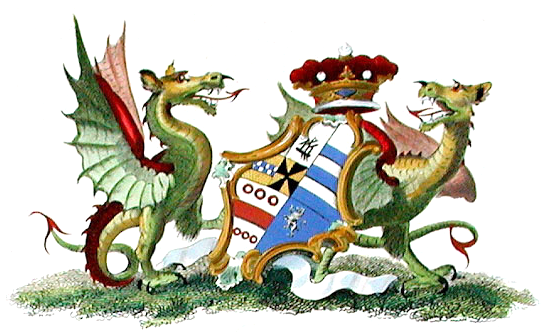 Arms of Jemima Yorke, 2nd Marchioness Grey and Countess of Hardwicke (9 October 1723 – 10 January 1797). Quarterly of 4: 1st grand quarter: 1: ?; 2 ?; 3: Stewart; 4: Campbell; 2: Grey; 3: Lucas; 4: Azure, a ...rampant argent